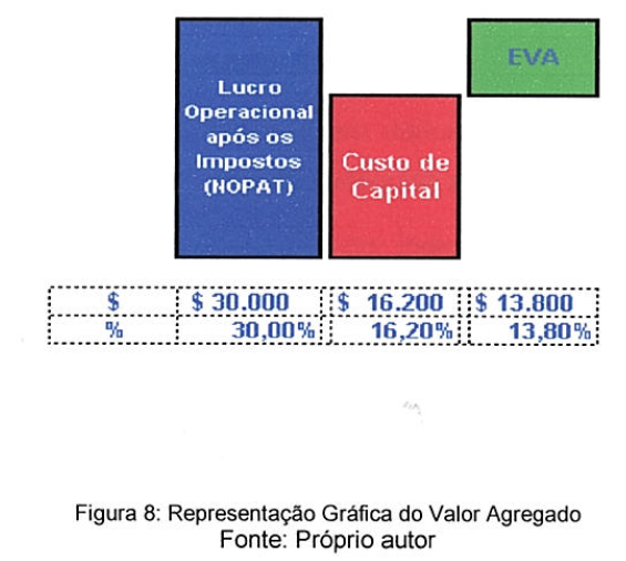 EVA - Economic Value Added